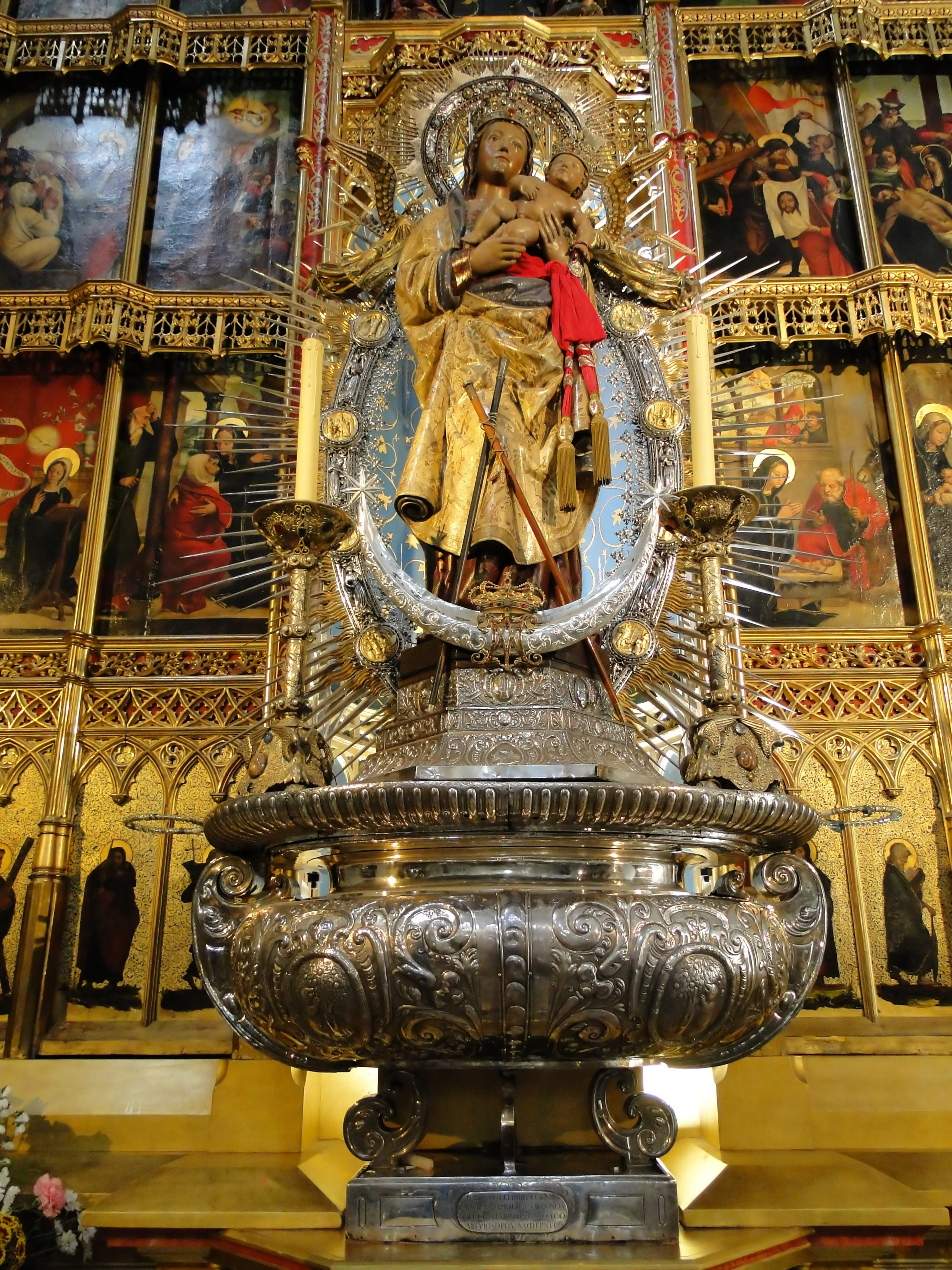 Statue of Madonna and Child in Almudena Cathedral, Madrid, Spain